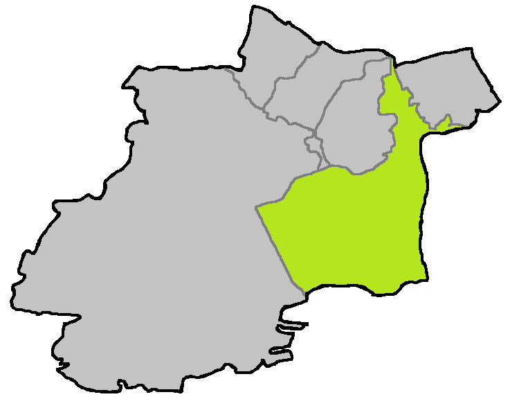 Locator map of Tharandt in Tharandt